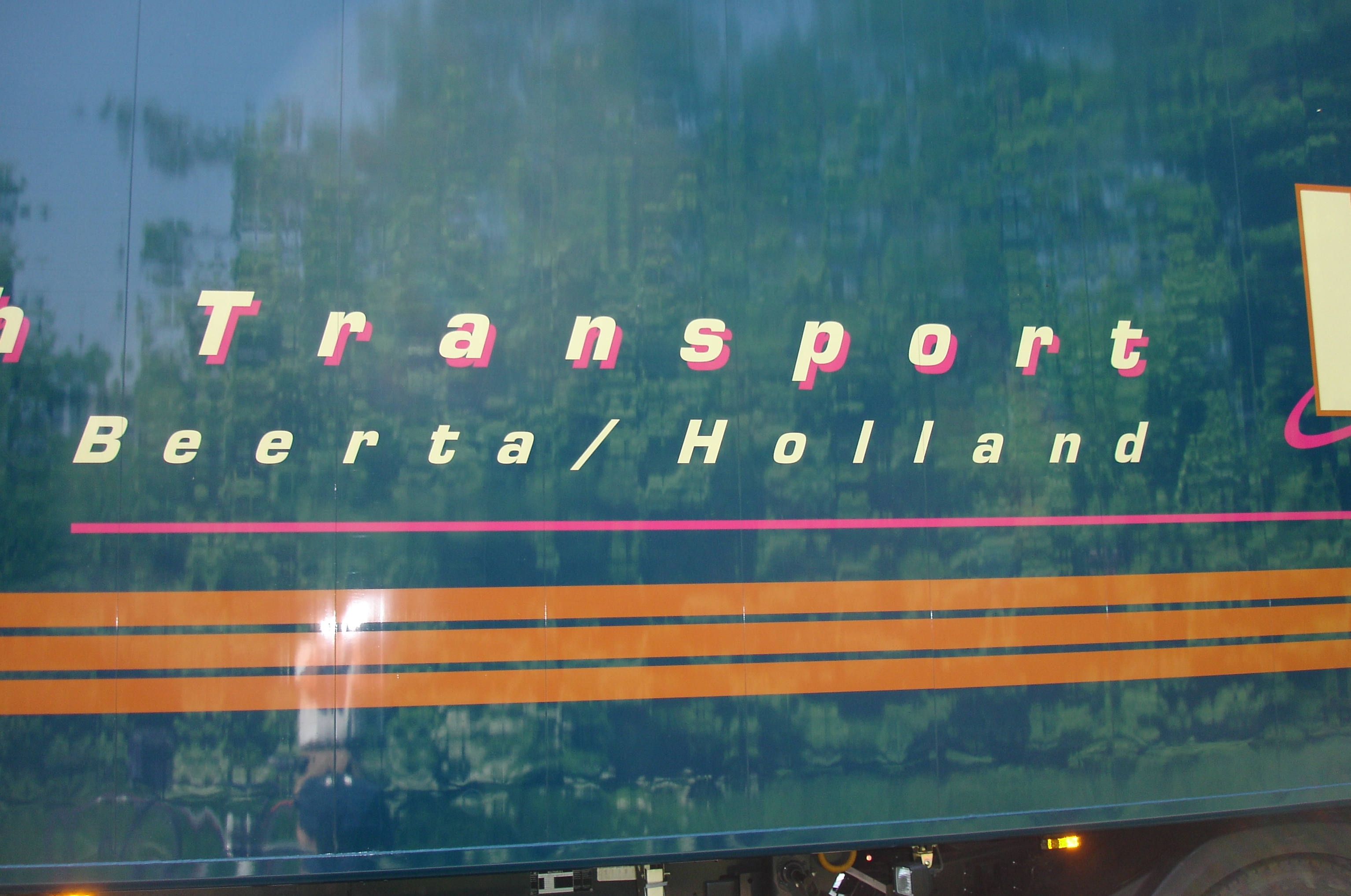 Lorry from Holland (should be Netherlands)